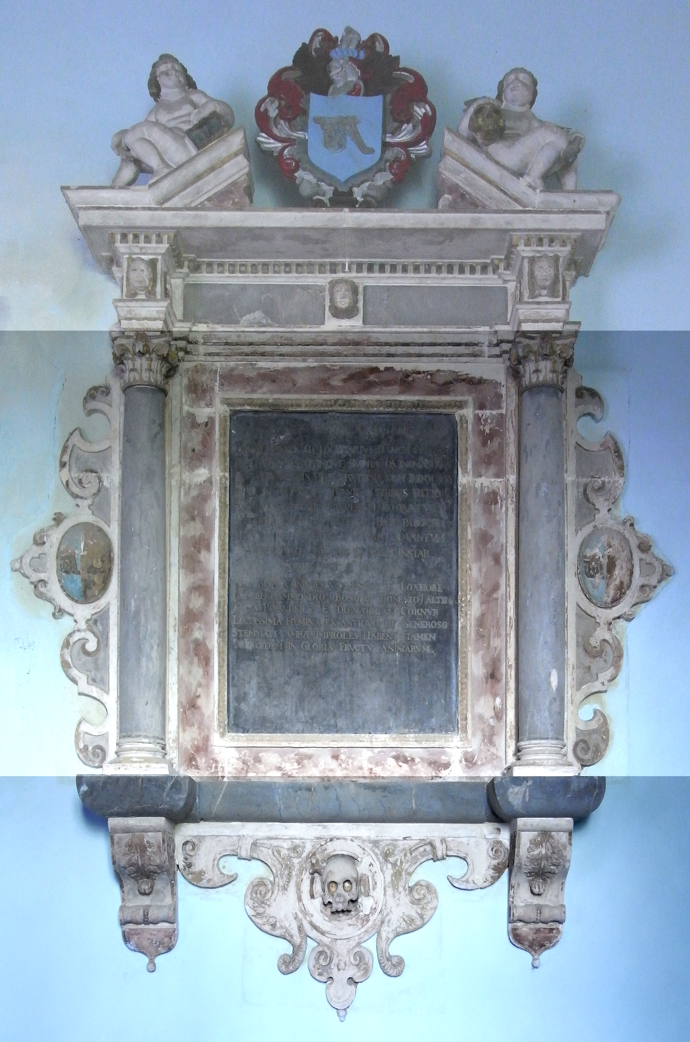 Mural monument to Rev. Gascoigne Canham (d.1667), Rector of Arlington, north wall of chancel, St James Church, Arlington, Devon. Left: possibly Canham impaling Hammond of Loxhore (Or, four cresents cross-wise azure)